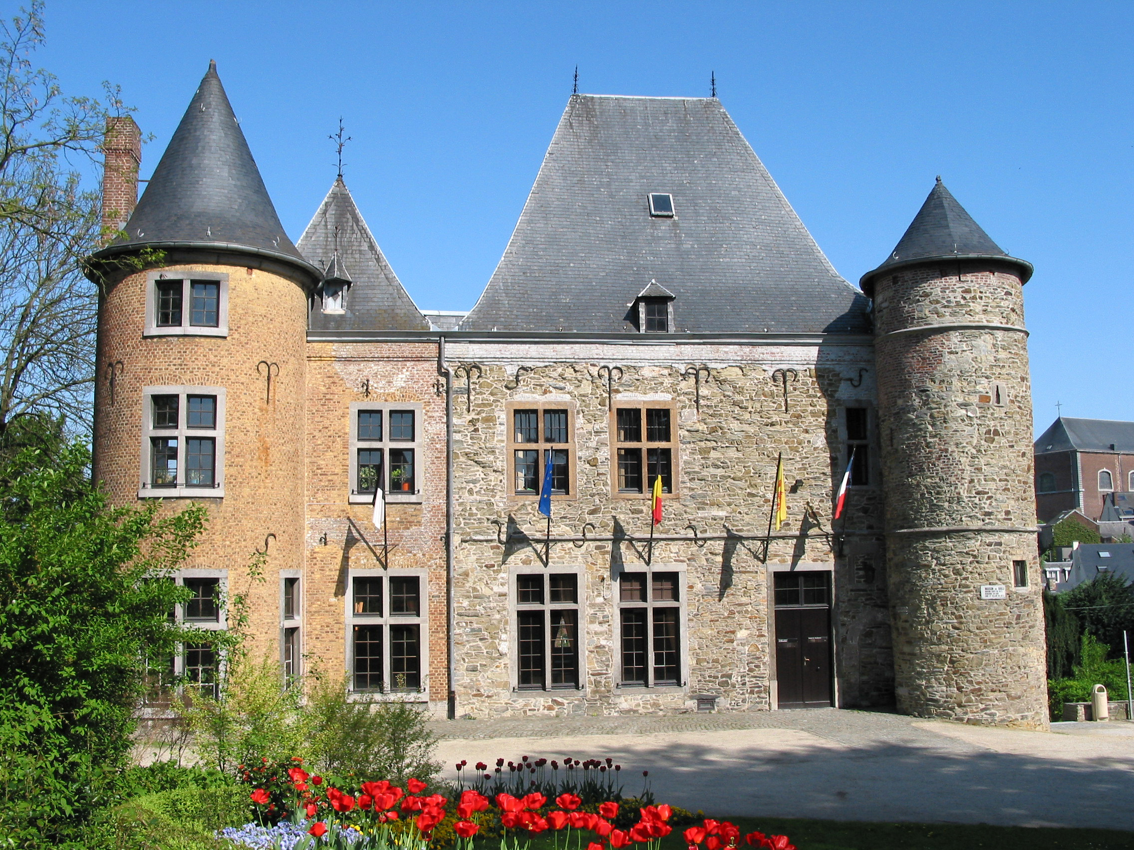 Gembloux (Belgium), the former "Bailli" house (XIIth century) and current City Hall.